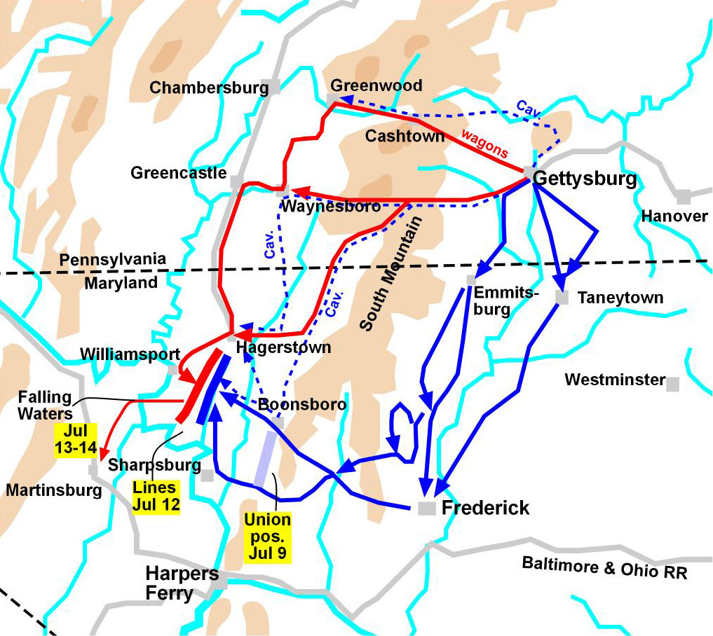 Map of the Gettysburg Campaign (retreat, July 5-14) of the American Civil War. Drawn by Hal Jespersen in Macromedia Freehand. Source file available in (The reason this is a JPEG is that I have found that PNG versions are too large.)